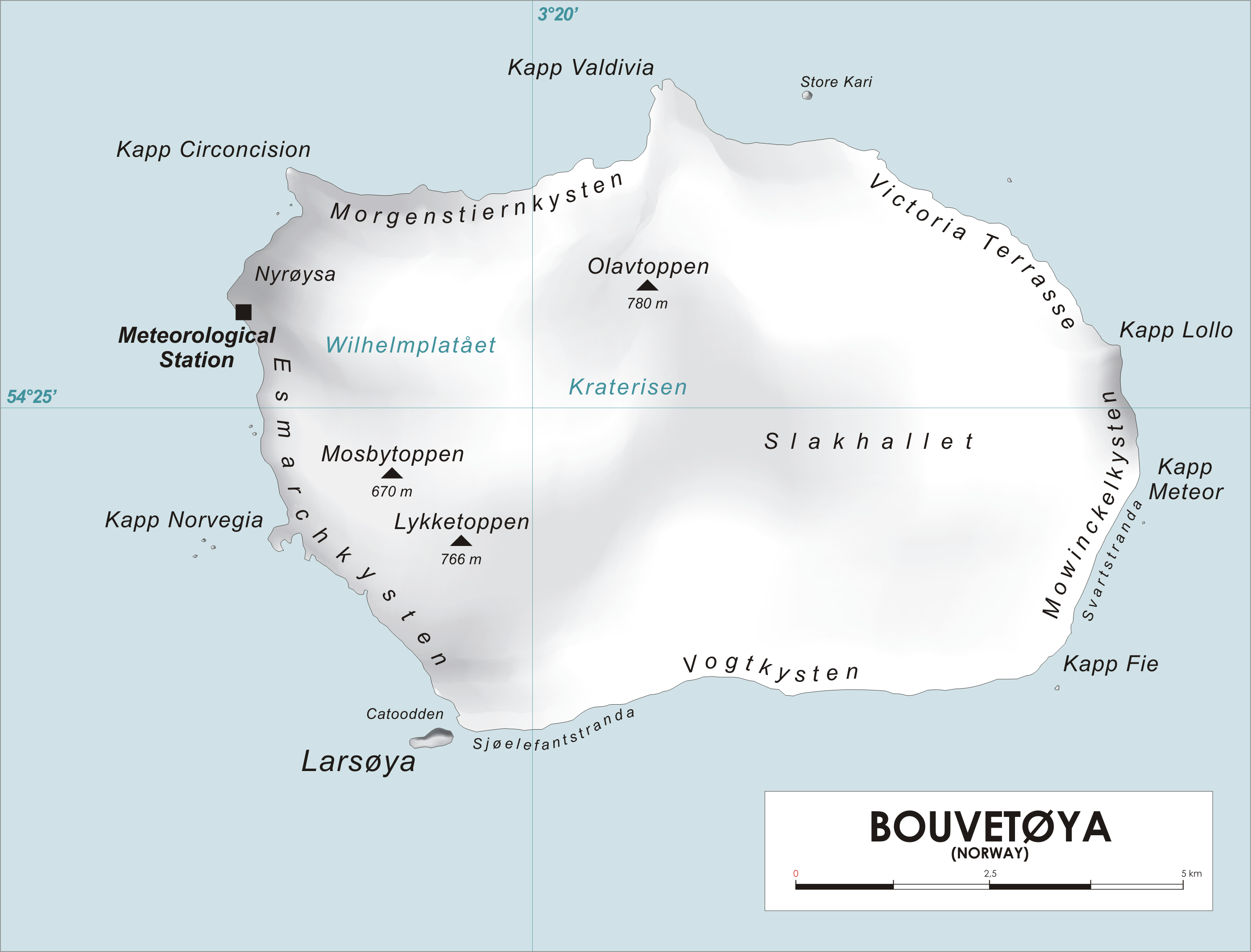 Map of Bouvet Island, Southern Atlantic Ocean